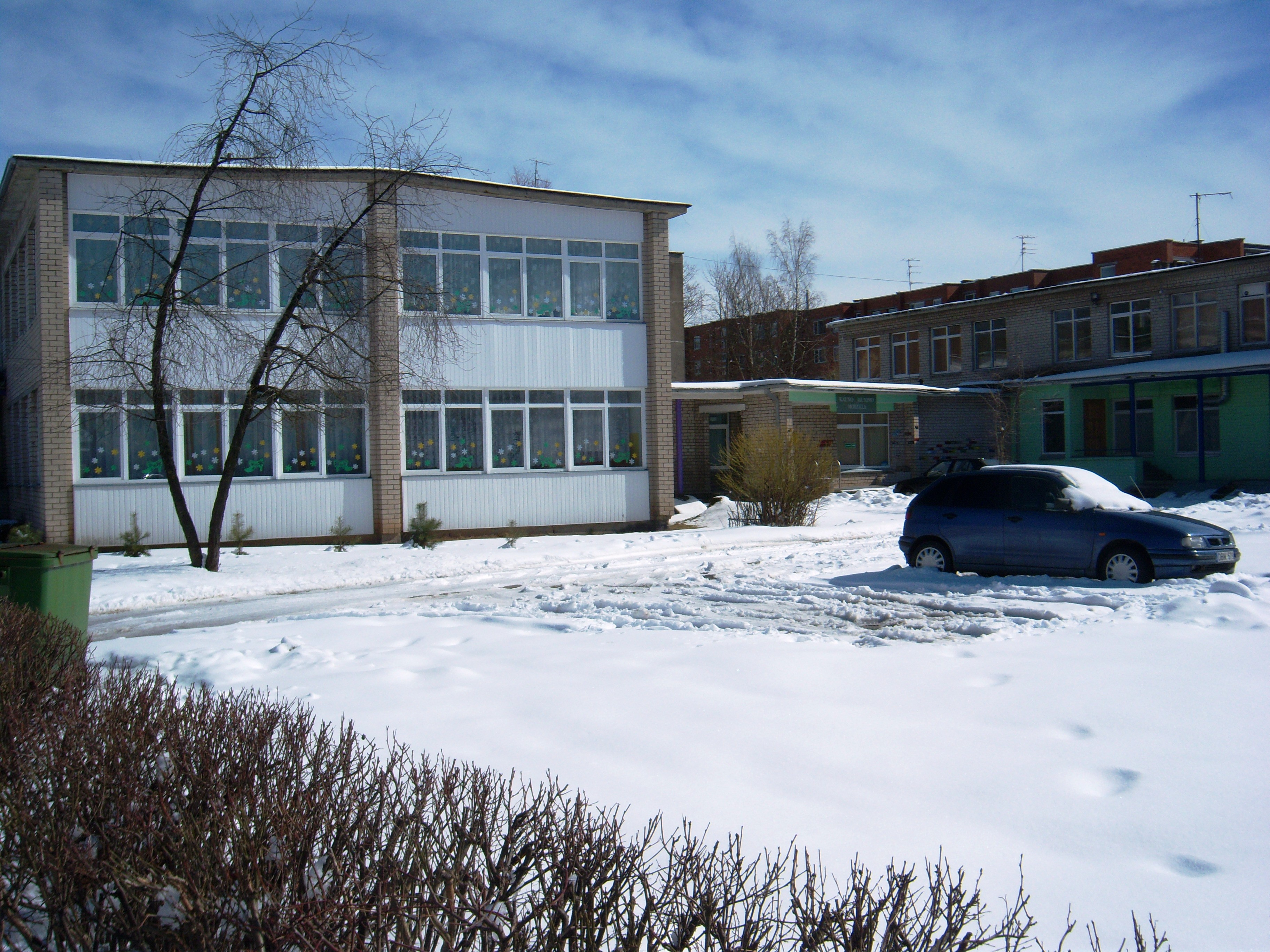 Kaunas Youth School, Lithuania